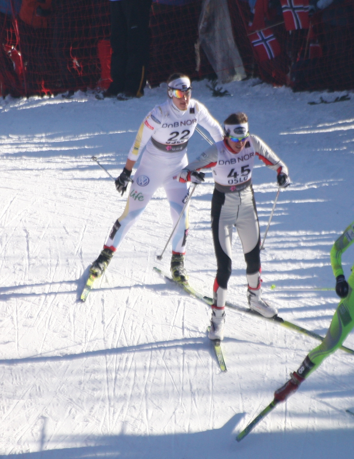 Laura Orgue (45), Spain, and Britta Johansson Norgren (22), Sweden, at 17 km in the women's 30 km cross country in World Shi Championship, Oslo 2011.